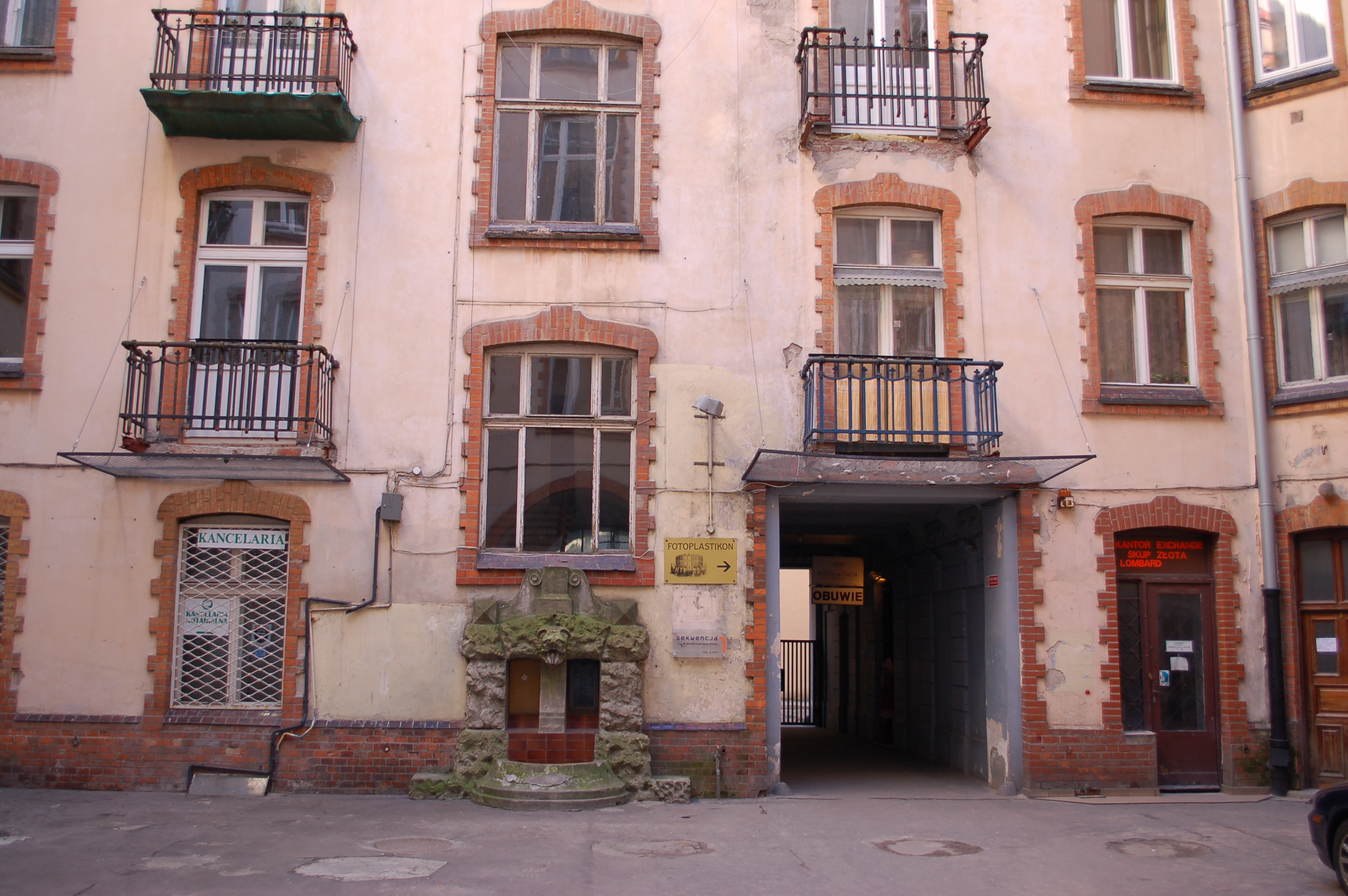 Fotoplastikon Warsaw, Jerozolimskie 51